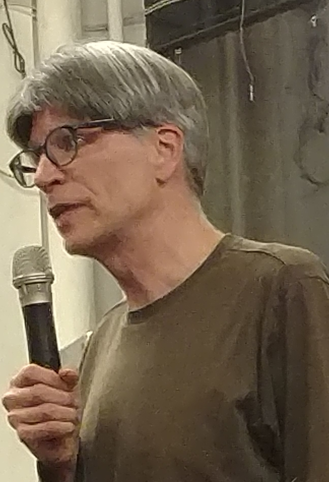 Richard Powers, American author, at a reading in Cambridge MA on April 18, 2018.